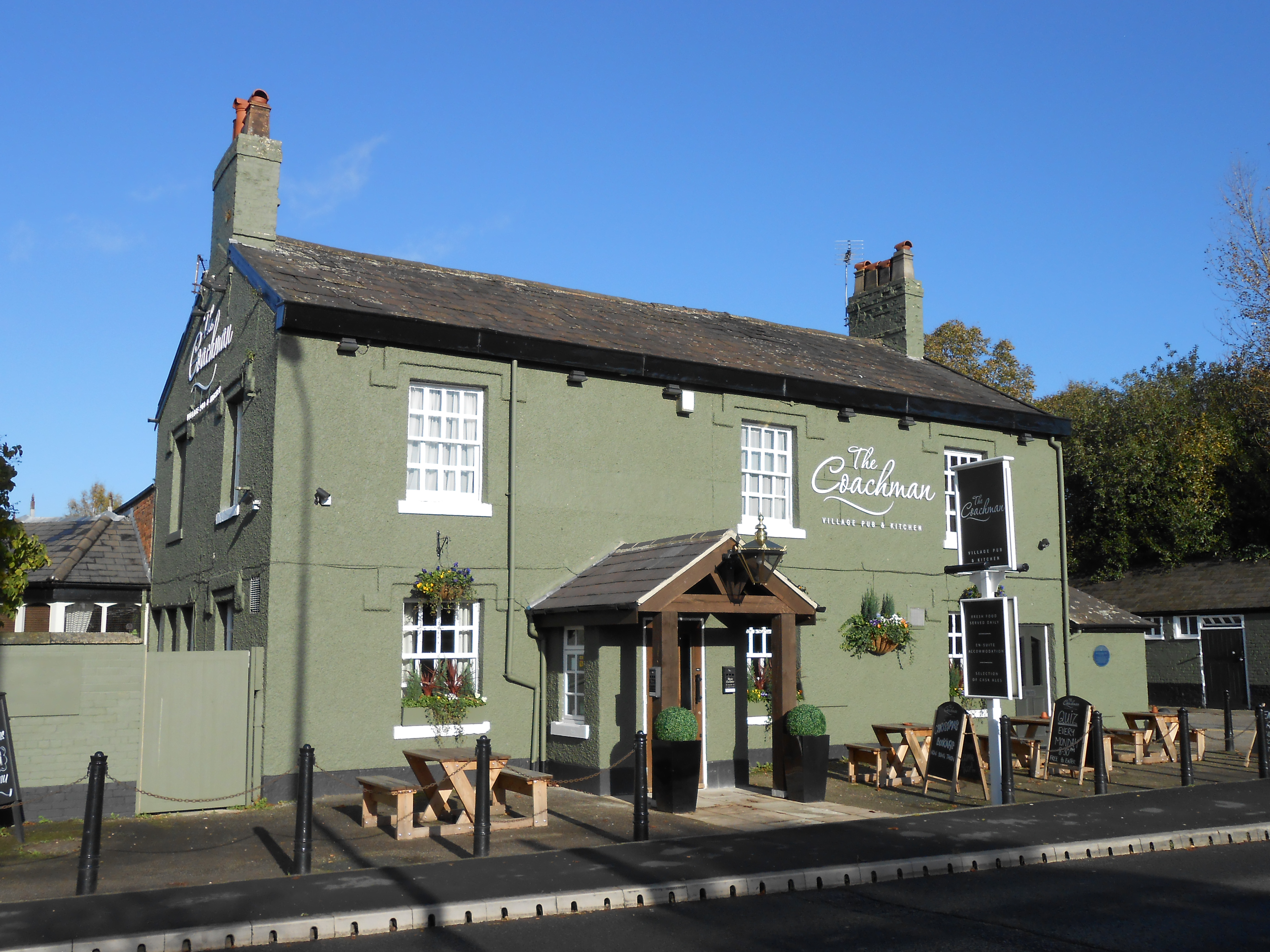 The Coachman Hotel, Hartford, Cheshire, England.